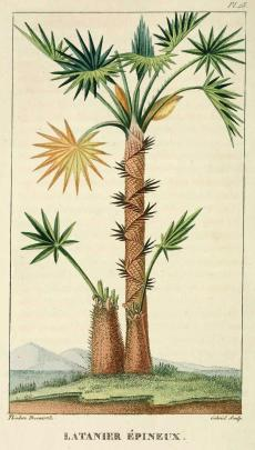 Illustration of type